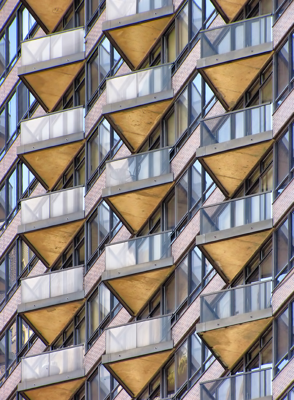 Balconies on the 100 United Nations Plaza Building, New York